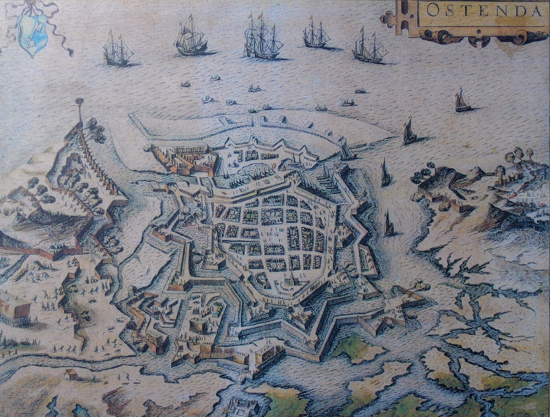 Siege of Ostend (1601-1604) by Spanish troops